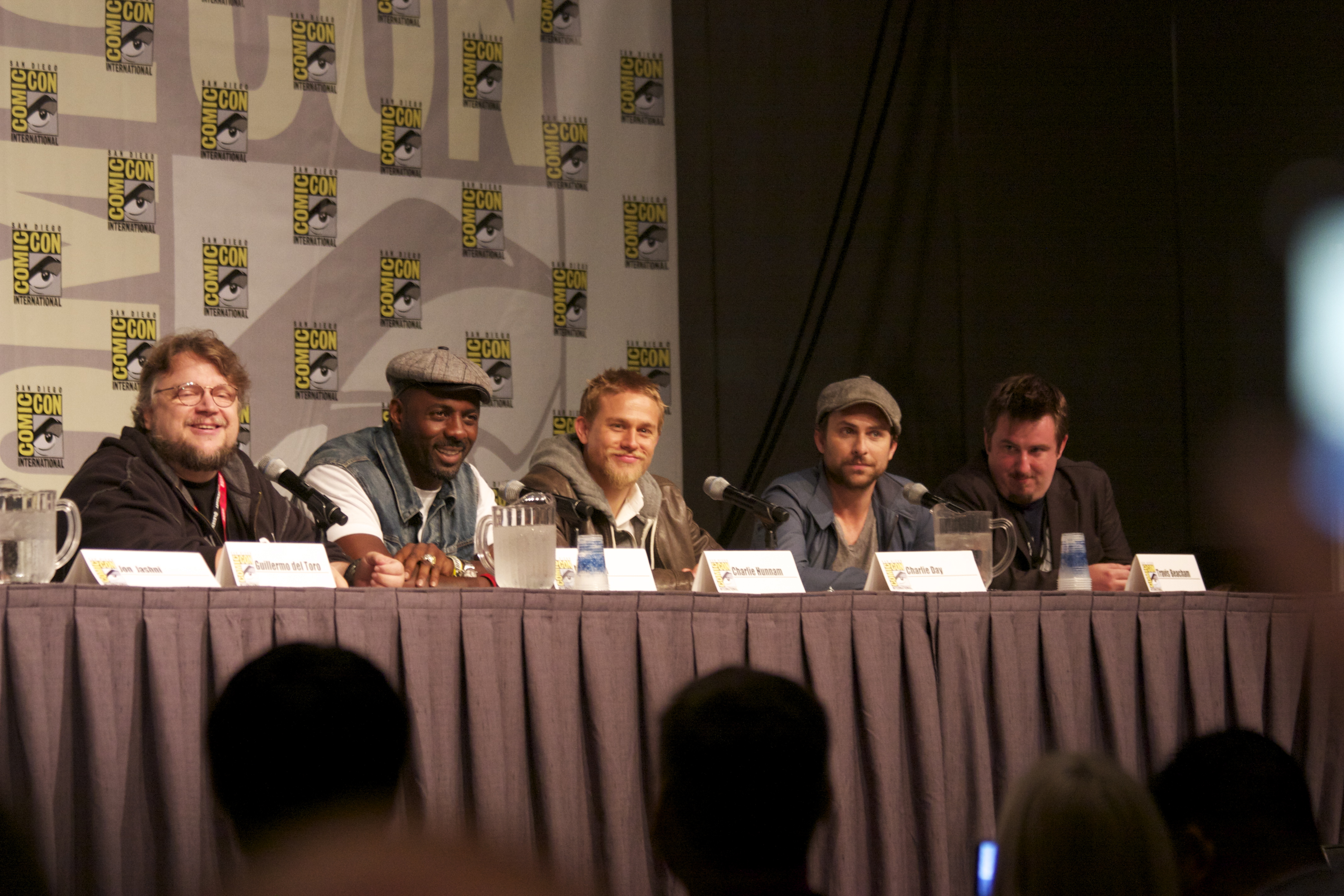 Guillermo del Toro, Idris Elba, Charlie Hunnam, Charlie Day, and Travis Beacham speaking in the Pacific Rim segment of the Legendary Pictures panel at the 2011 Comic-Con International